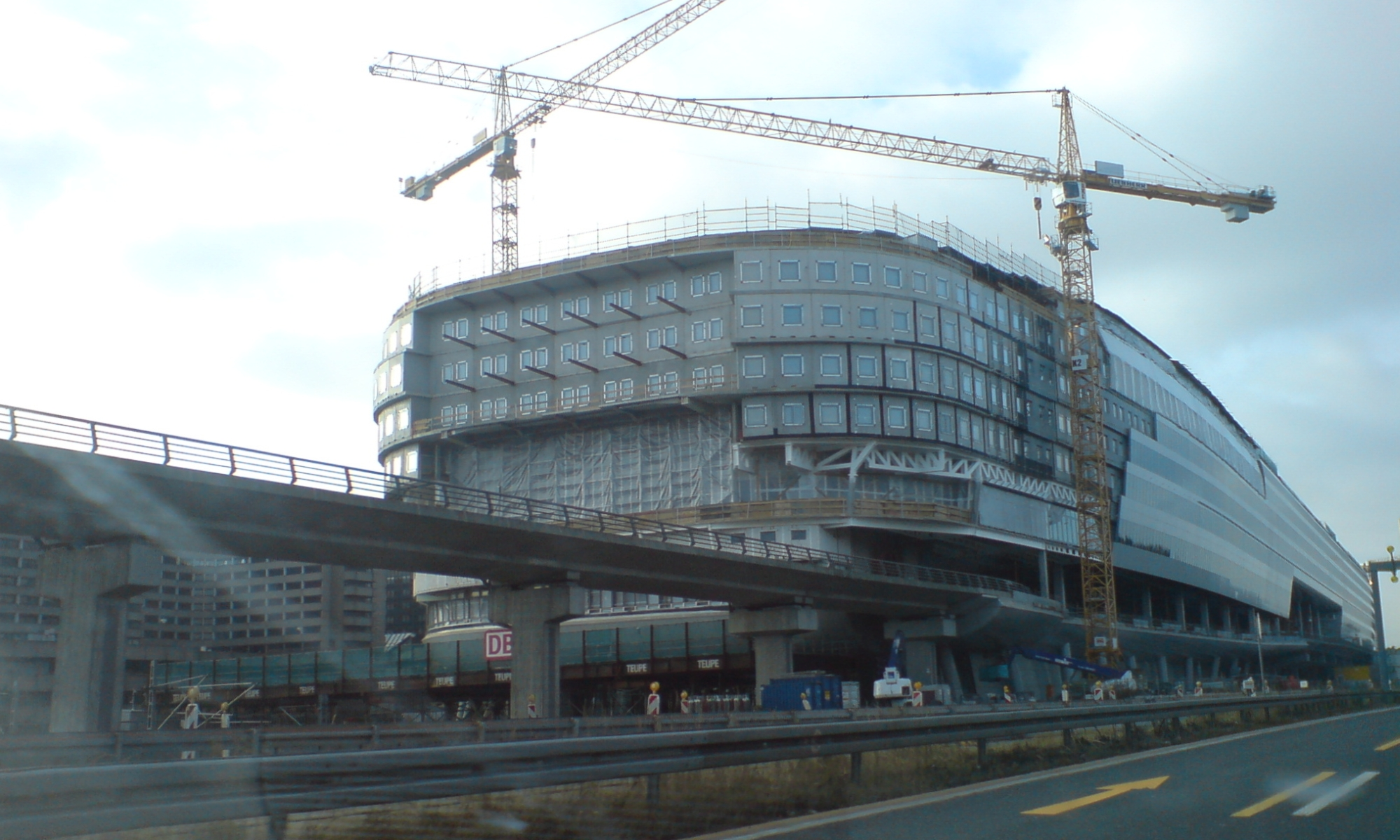 The Squaire, formerly the Airrail Center, under construction above the train station of the Frankfurt Airport, Germany.